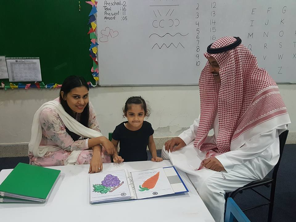 Kingdom of Saudi Arabia's Ambassador to Bangladesh Visits His Children at ASIS